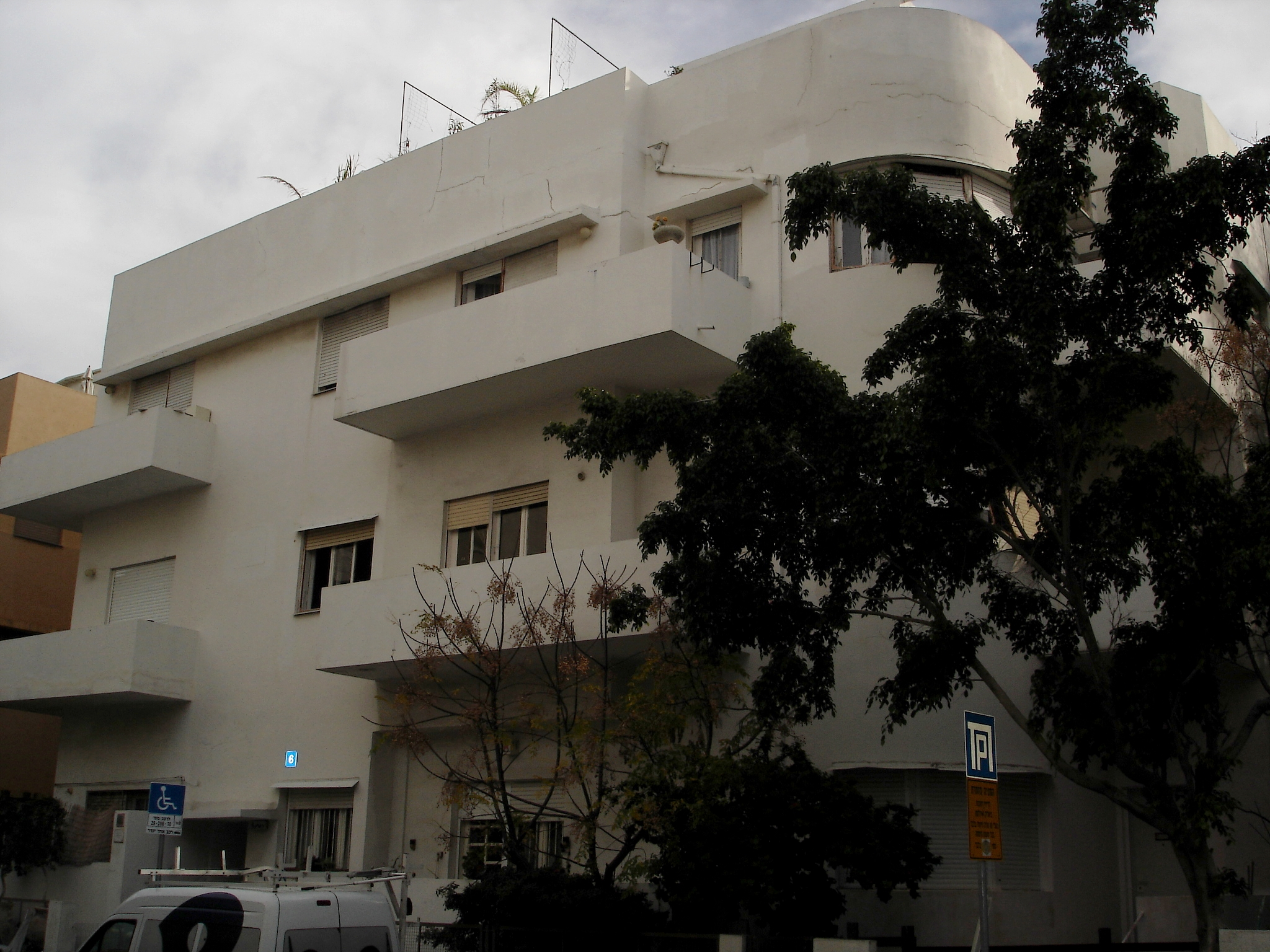 Goldin House, 6 Bialik St, Tel Aviv, built in 1931 by architect Yitzhak Schwartz